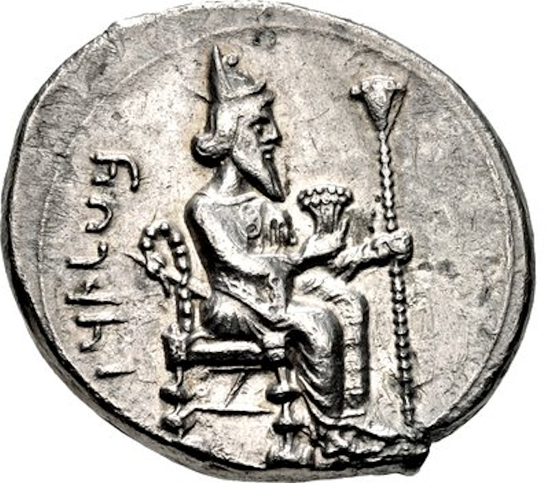 Artaxerxes III as Pharao